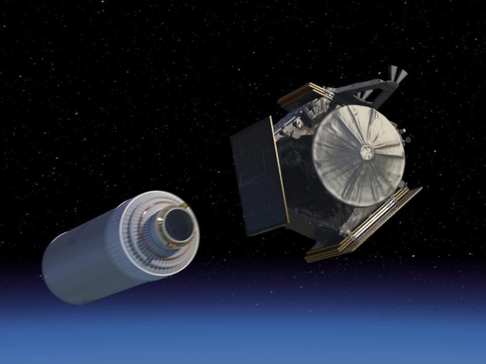 NASA's Juno spacecraft separates from the Centaur upper stage as the spacecraft leaves Earth orbit on its way to Jupiter.